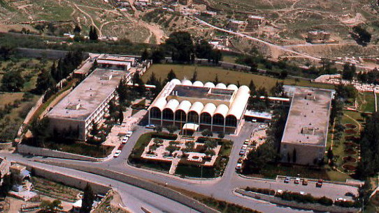 7 Arches Hotel, Mount of Olives, Jerusalem